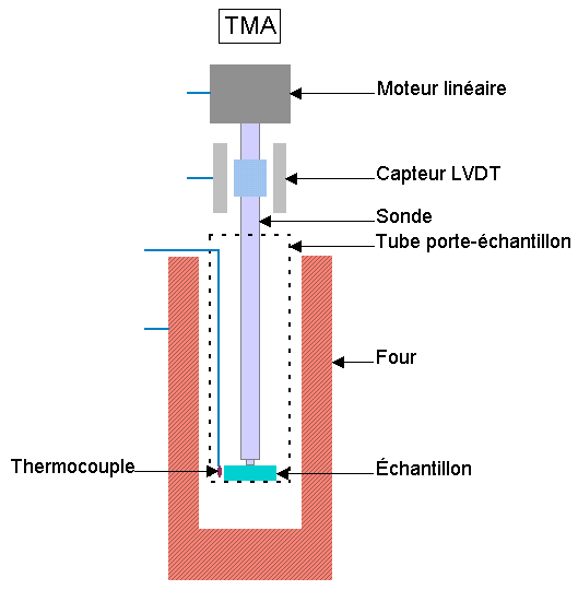 Scheme in principle of a thermomechanical analyzer (TMA).